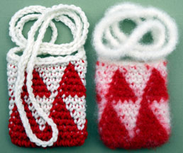 Felted tapestry crochet bags.